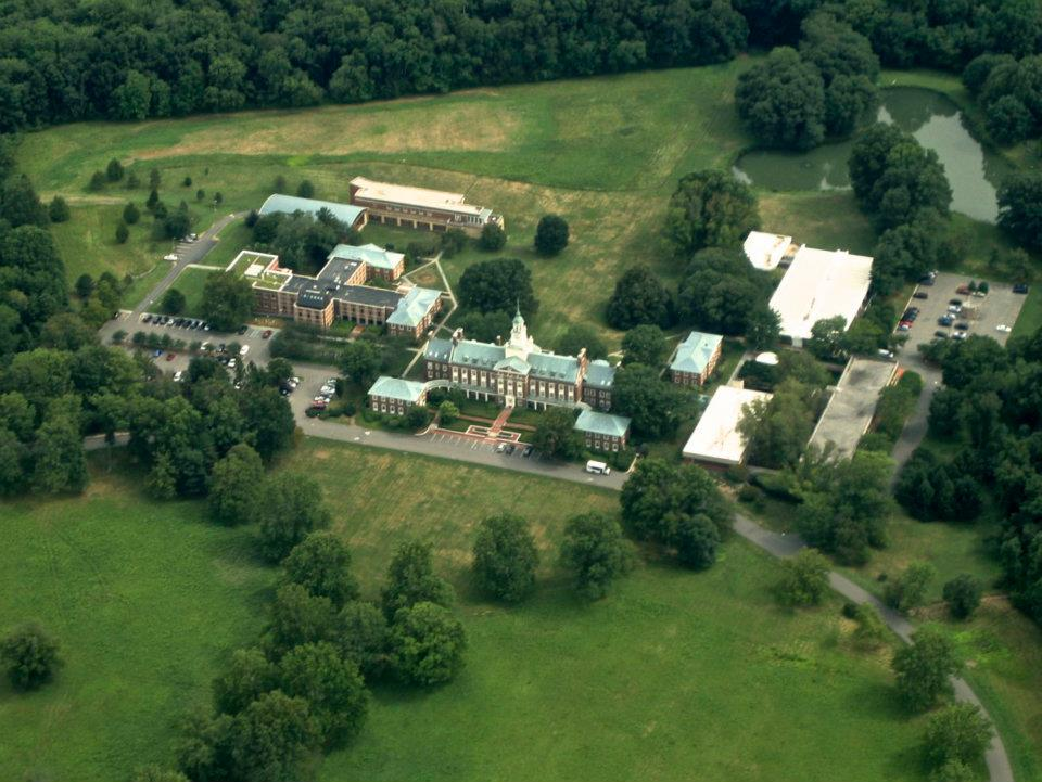 Institute for Advanced Study from the air. Taken August 2012.